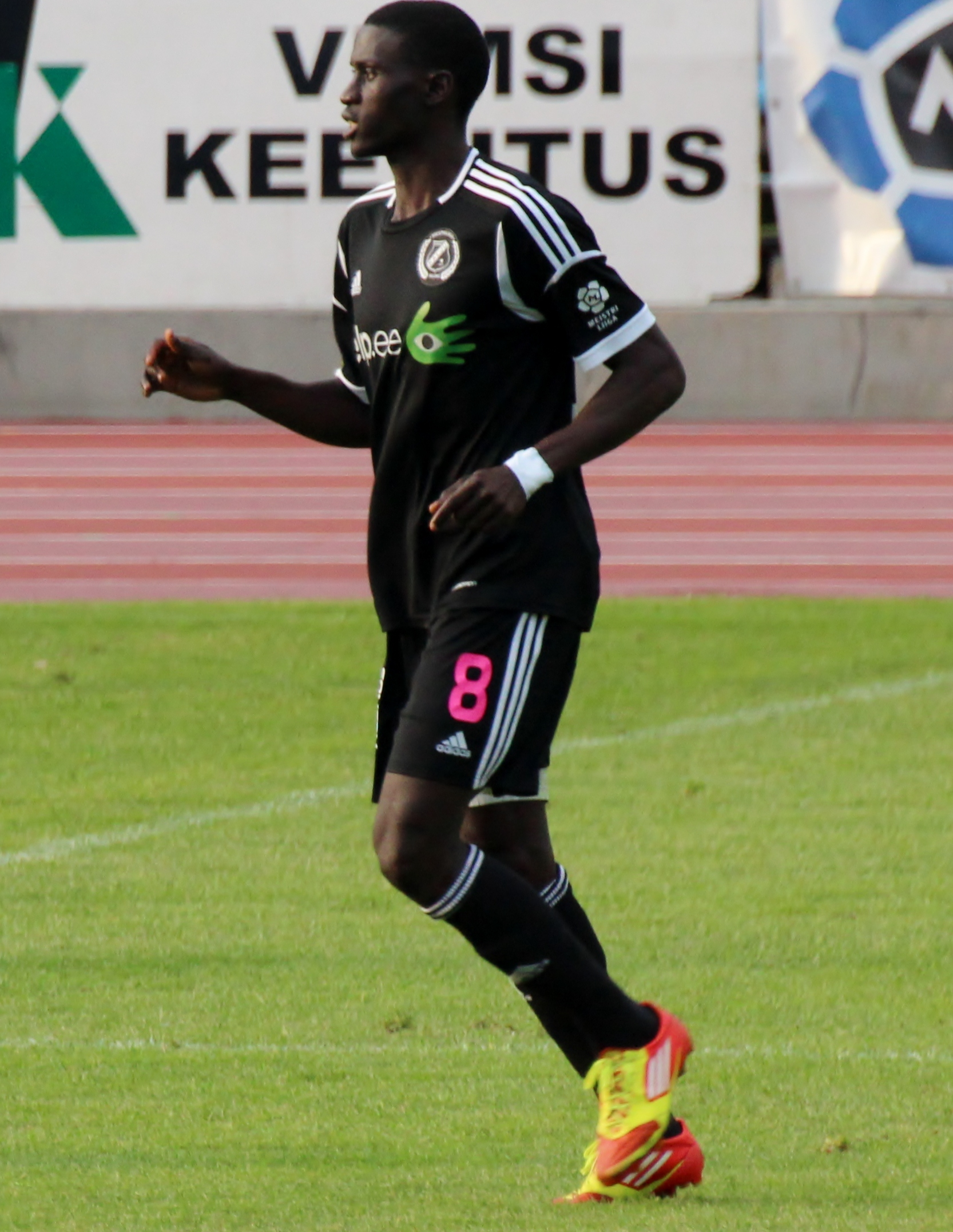 JK Nõmme Kalju player Yankuba Ceesay playing against FC Levadia